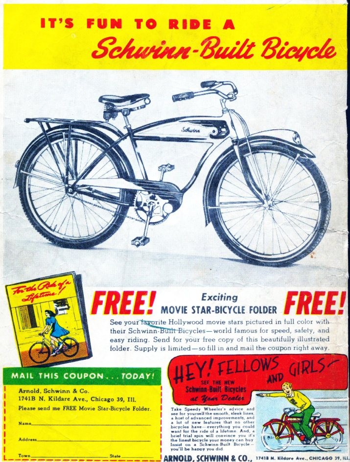 The Black Terror #16, Page 52 October, 1946